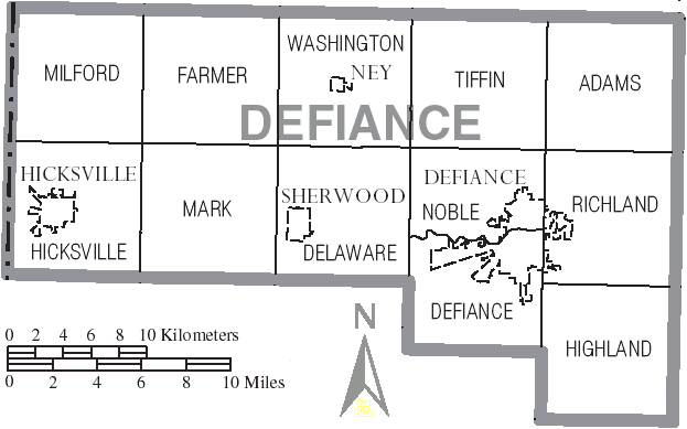 Map of Defiance County, Ohio, United States with township and municipal boundaries